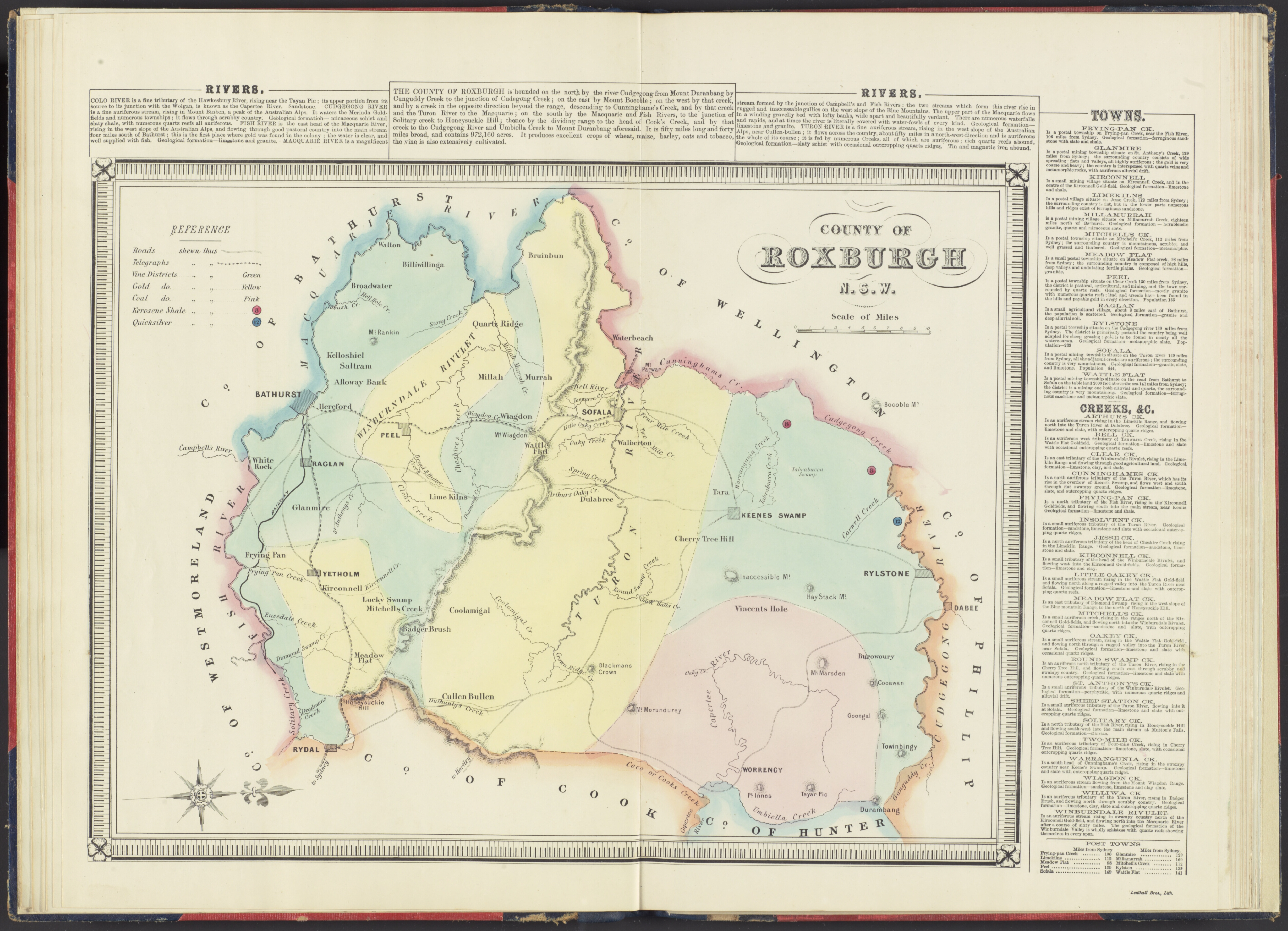 Roxburg county, map of 1872